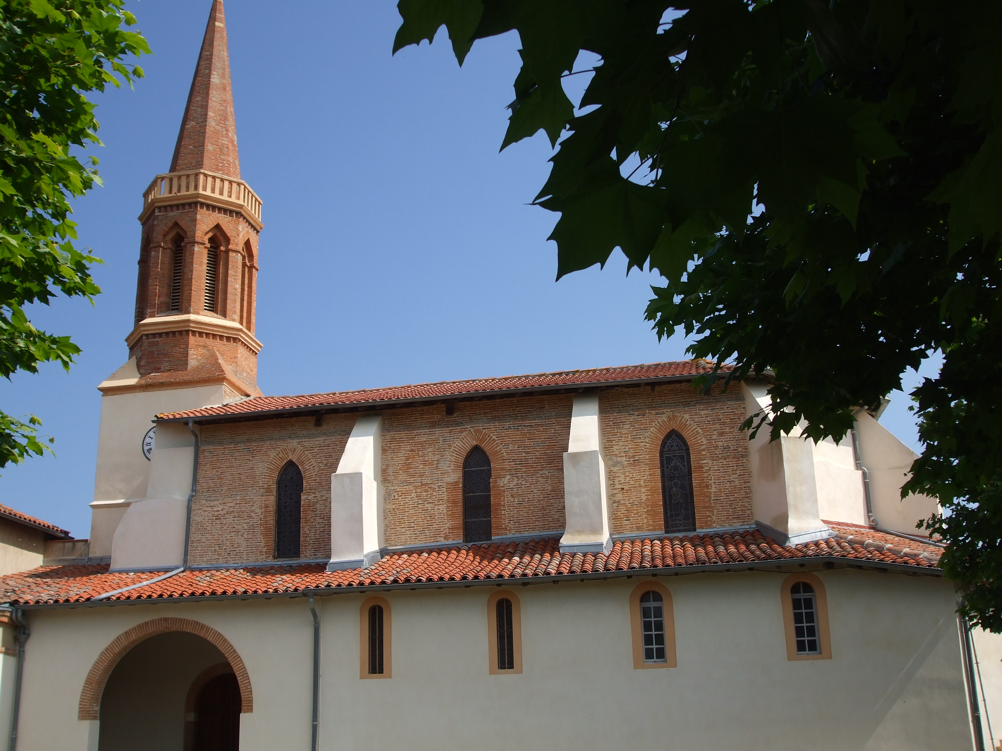 Church of Lacaugne, in the french département of Haute-Garonne.